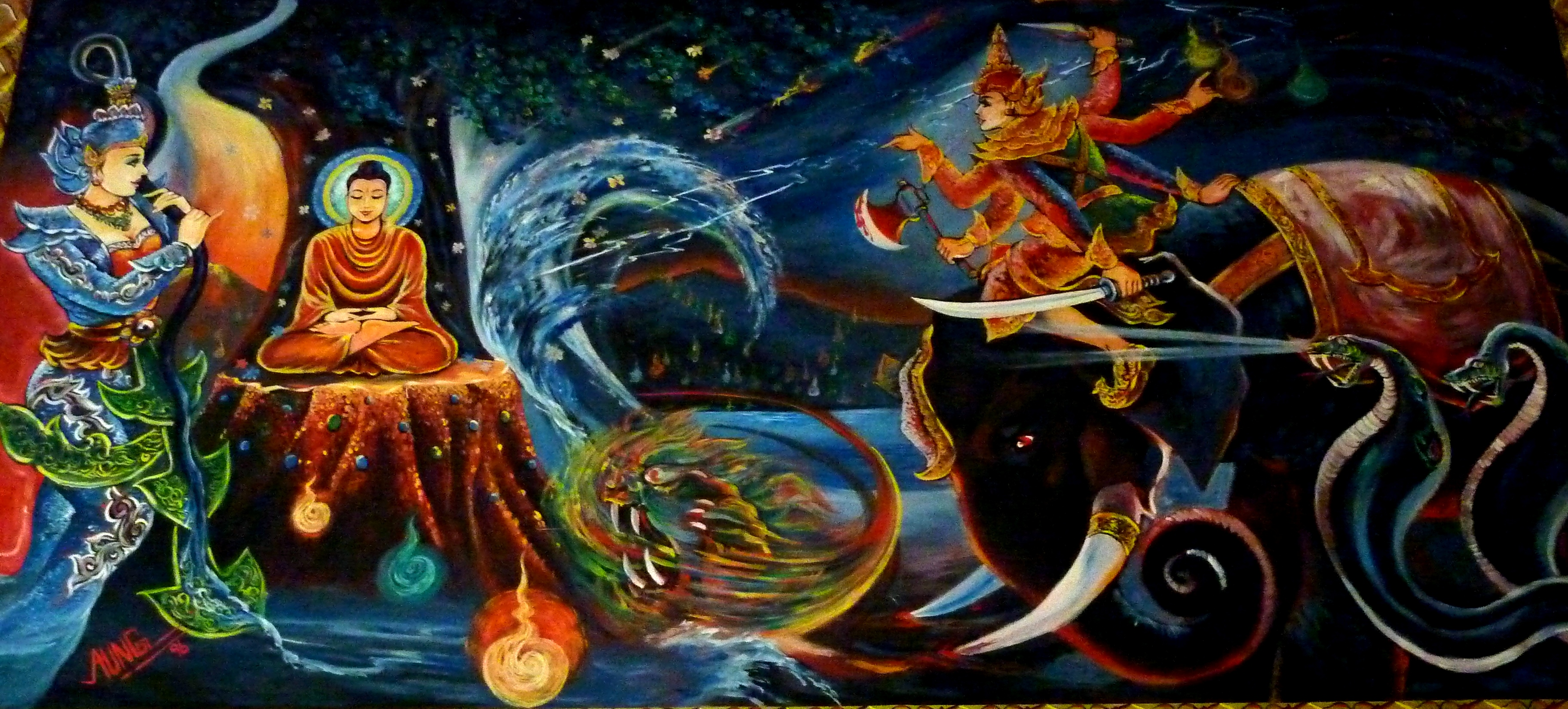 070 The Defeat of Mara, at Wat Olak Madu, Kedah